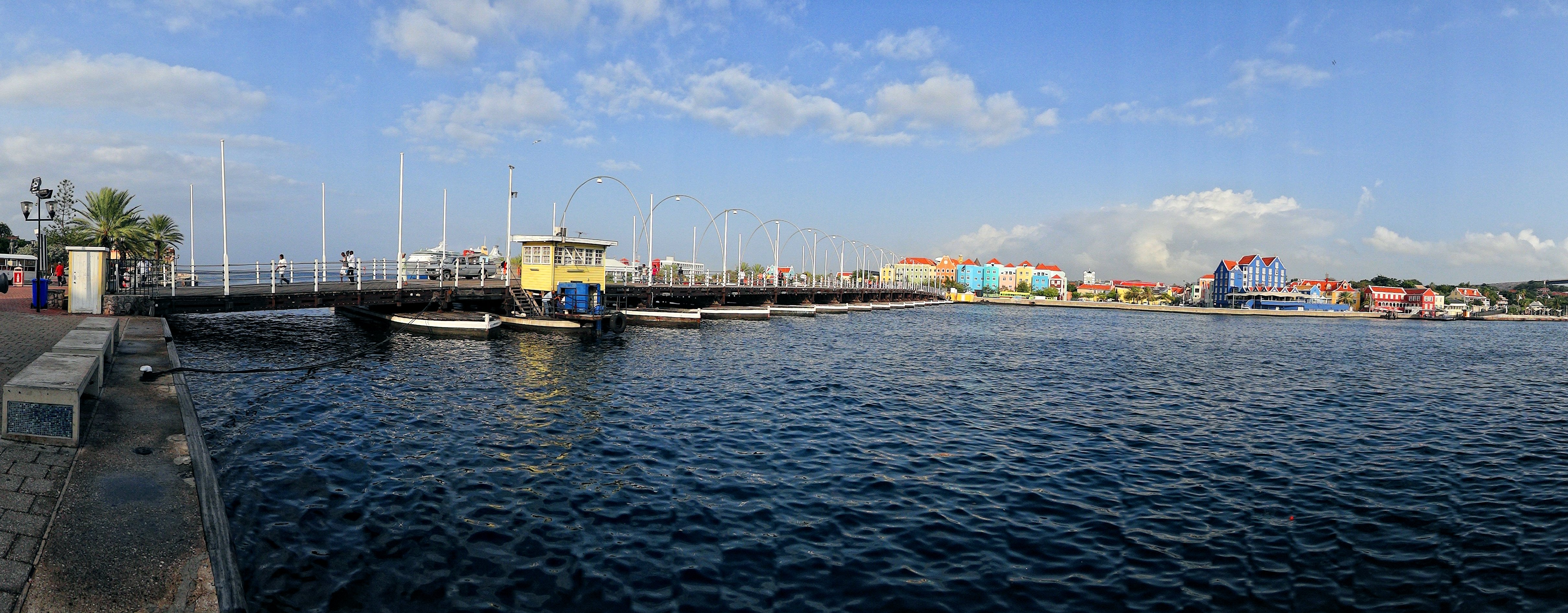 The Queen Emma pontoon bridge when it is operating for pedestrians, seen from the Punda side towards the Otrobanda side. At this end of the bridge, near the little cabin, there are two propels that can be used to swing the bridge towards the docking station seen at the right, on the other side of the water, to allow ships to pass.